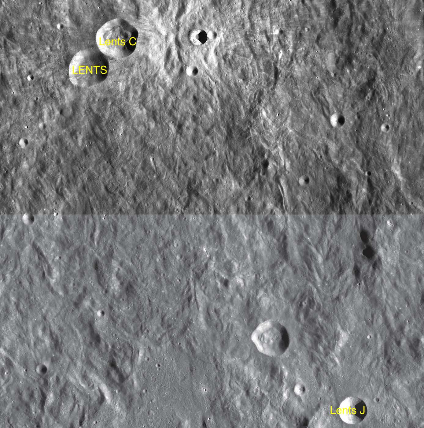 Parts of the charts LAC-72, LAC-90 used for the presentation